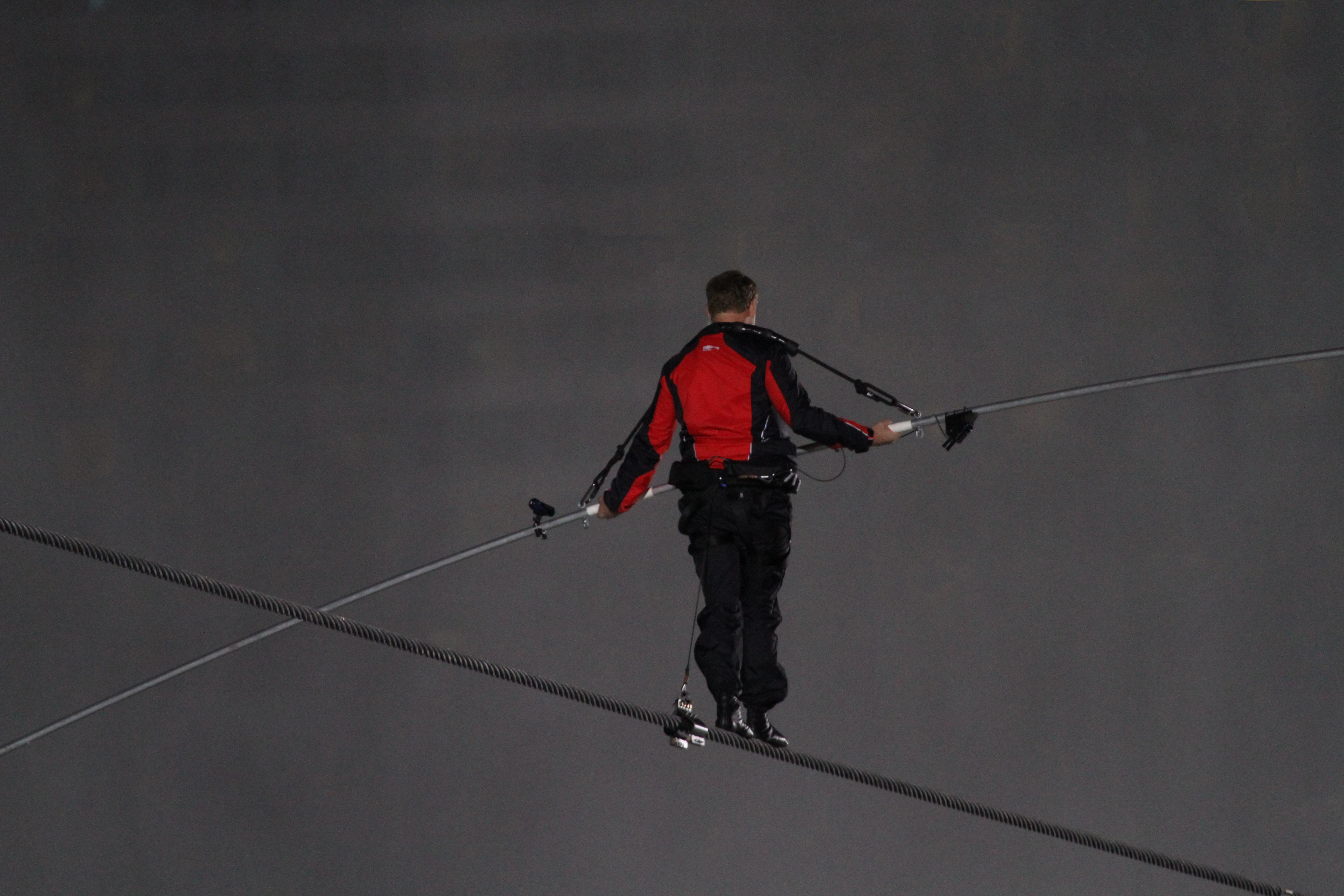 Tightrope walker Nik Wallenda walking across Niagara Falls in 2012.